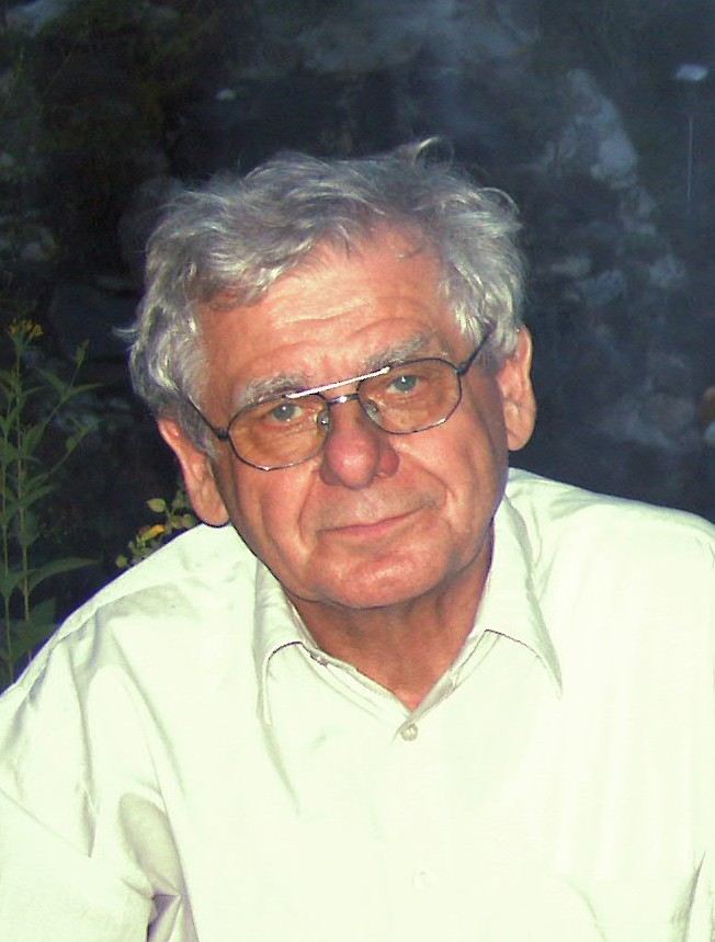 Wilfried Fiedler (* 7. Mai 1933 in Oberfrohna, Kreis Chemnitz, today: Limbach-Oberfrohna) is philologist with specialization on albanology and balkanology. He is currently living in Meißen and regularly holding guest-lectures at the Friedrich-Schiller-University Jena.